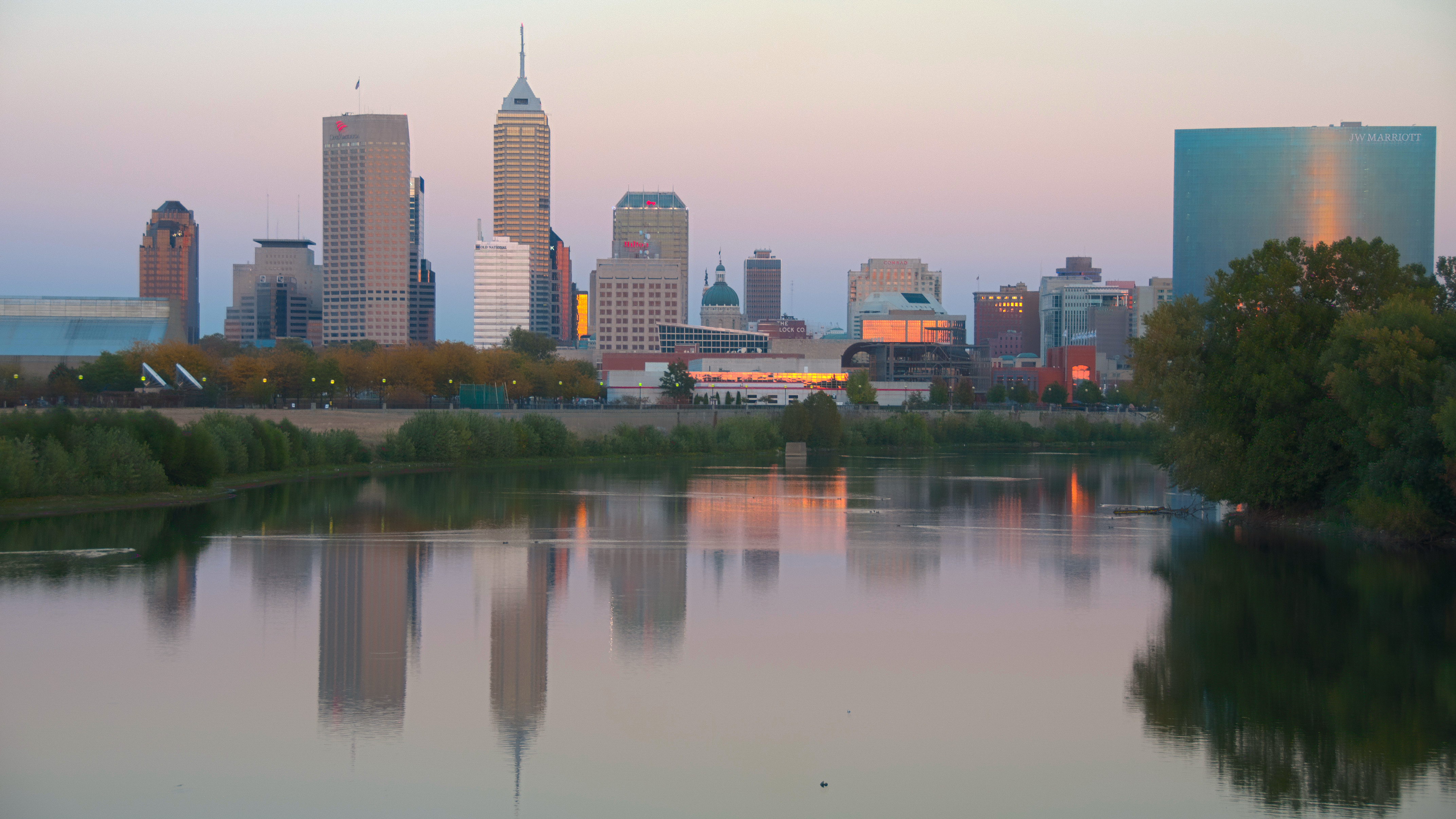 Janother hdr with CS5. i just combined the 5 shots. not too impressed with this picture. but if you ever take the walk on the river promenade... make sure the Dumbass security guy doesn't close the gate at the bridge side while you are still on the trail, because you will end up walking the 1.3miles on Washington St.to get back to your car. #$!#$@!$ ....